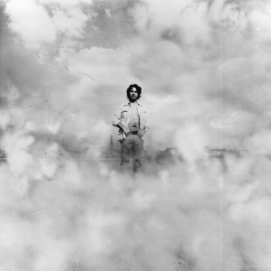 Gotthard Graubner by Lothar Wolleh